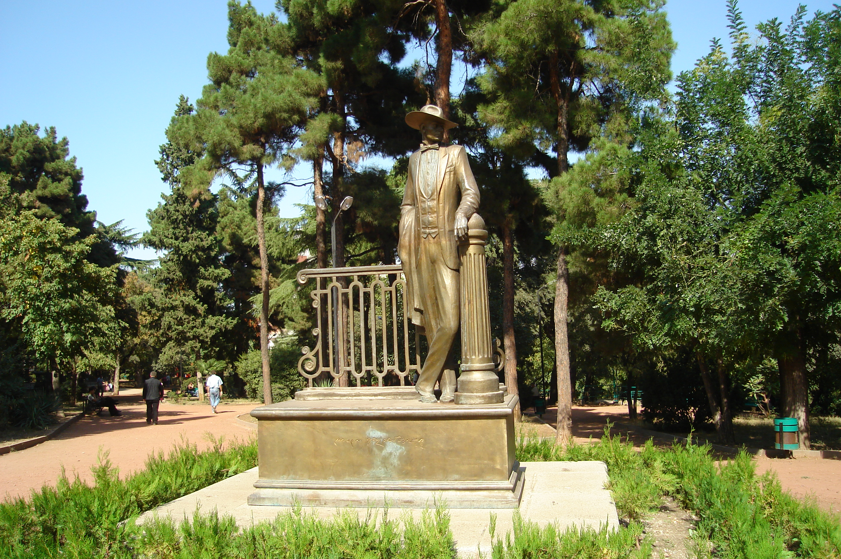 Lado Gudiashvili statue in downtown Tbilisi